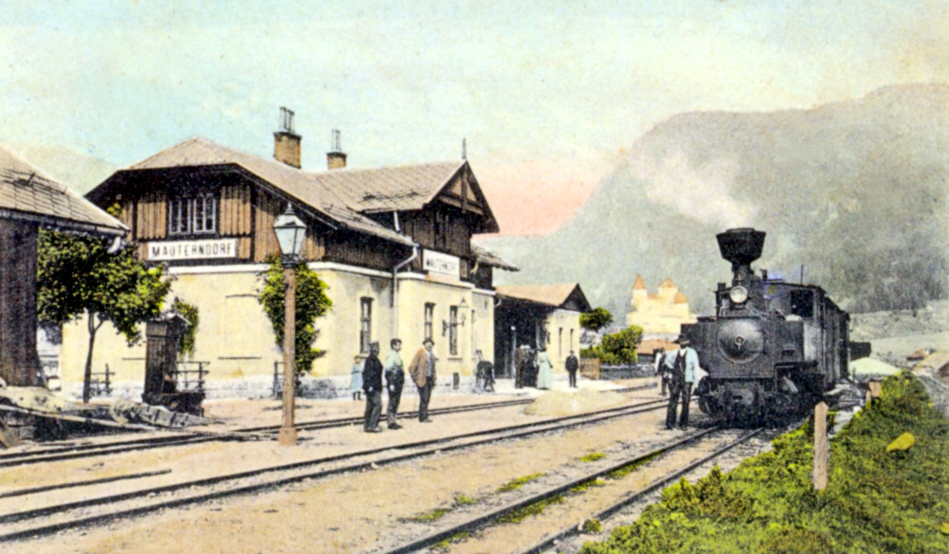 Mauterndorf station with U-class engine, coloured picture postcard based on B/W photograph